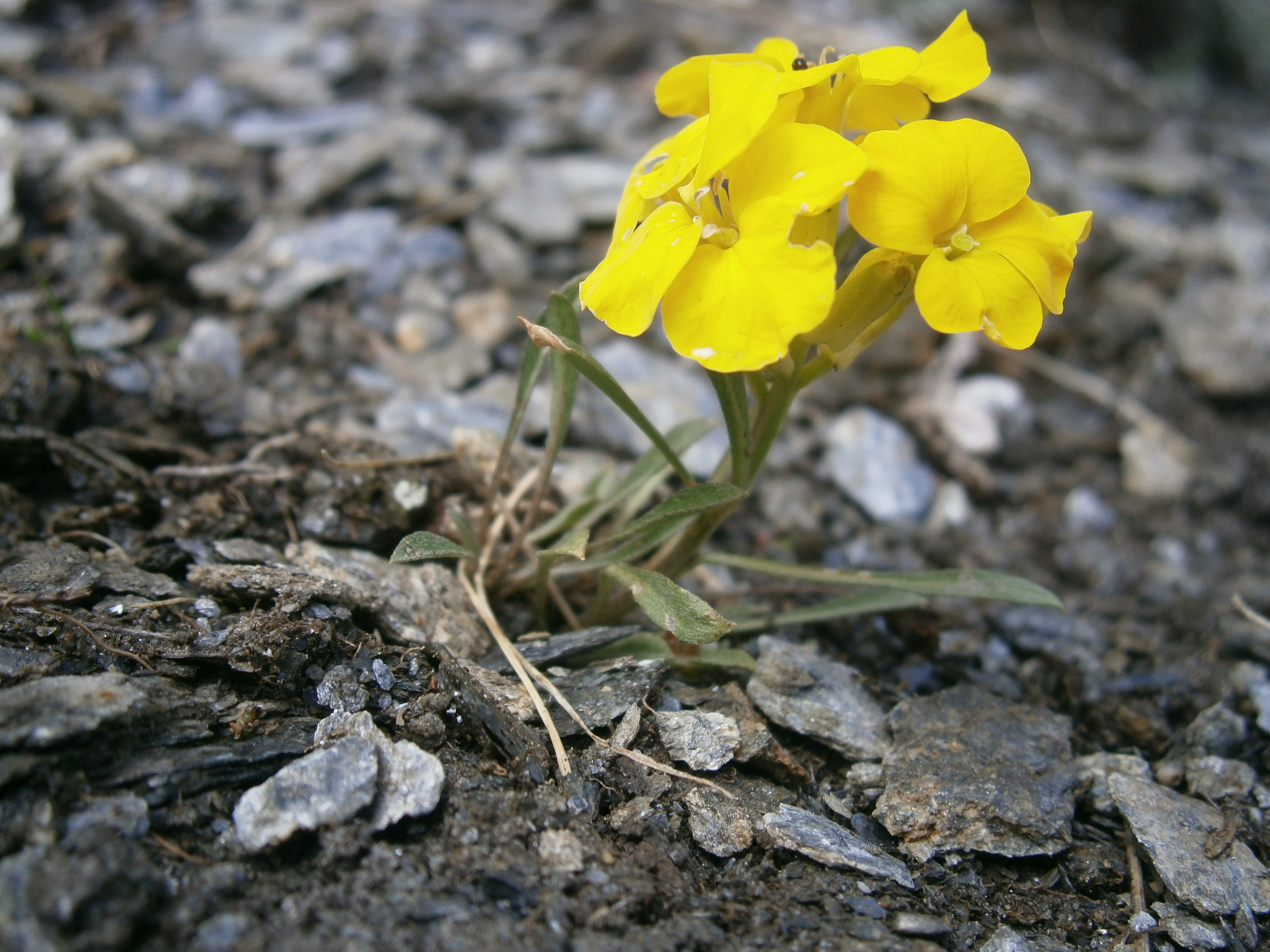 Erysimum jugicola